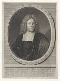 c.1710s